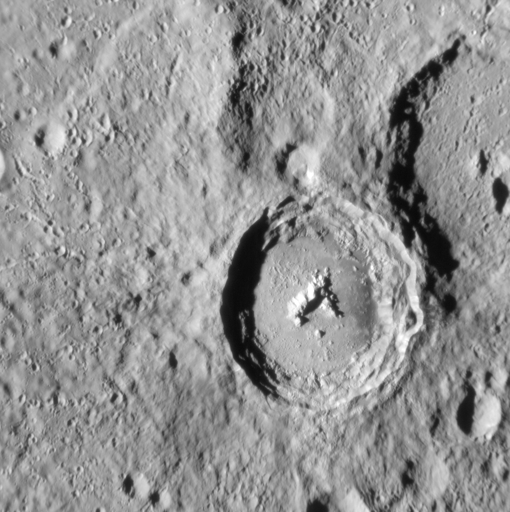 Date acquired: November 05, 2014 Image Mission Elapsed Time (MET): 57488460 Image ID: 7374372 Instrument: Narrow Angle Camera (NAC) of the Mercury Dual Imaging System (MDIS) Center Latitude: 71.7° S Center Longitude: 213.7° E Resolution: 115 meters/pixel Scale: Han Kan crater is about 50 km (31 mi.) in diameter Incidence Angle: 75.2° Emission Angle: 23.7° Phase Angle: 51.5° North is to the top left in this image. Of Interest: Situated high in Mercury's southern hemisphere, Han Kan is a 50-km-diameter impact crater with a well preserved central peak and a smooth floor that is likely solidified impact melt. The crater's perimeter is relatively sharp, indicating that it formed in the latter part of Mercury's history. Terracing along the crater's wall resulted from localized collapses after Han Kan formed. This charming crater is named for the Chinese painter Han Kan (720–780 CE), who is renowned for his life-like and spirited paintings of horses. This image was acquired as a high-resolution targeted observation. Targeted observations are images of a small area on Mercury's surface at resolutions much higher than the 200-meter/pixel morphology base map. It is not possible to cover all of Mercury's surface at this high resolution, but typically several areas of high scientific interest are imaged in this mode each week.